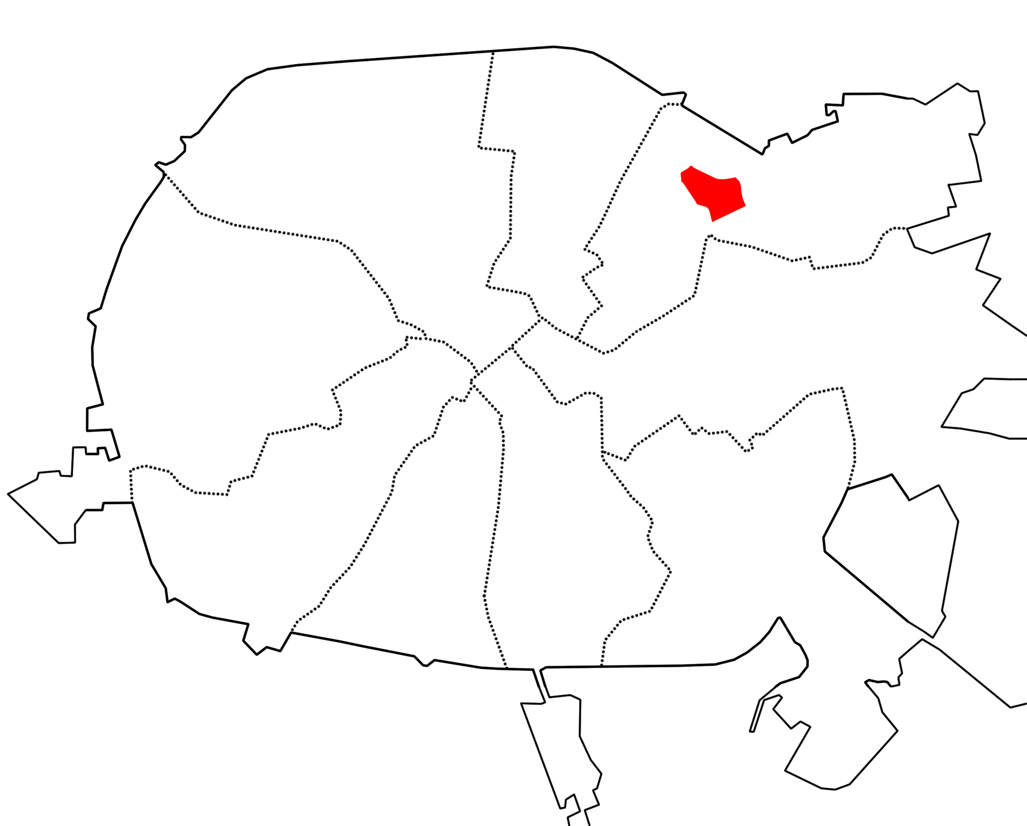 Uschod (Vostok) microdistrict in Minsk, Belarus